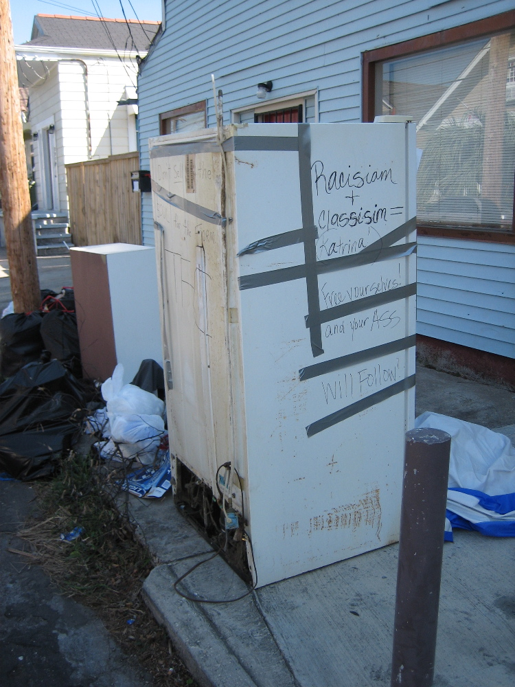 New Orleans after Hurricane Katrina: Trashed refrigerator with graffitti commenting on racisim and classism. Bywater neighborhood.